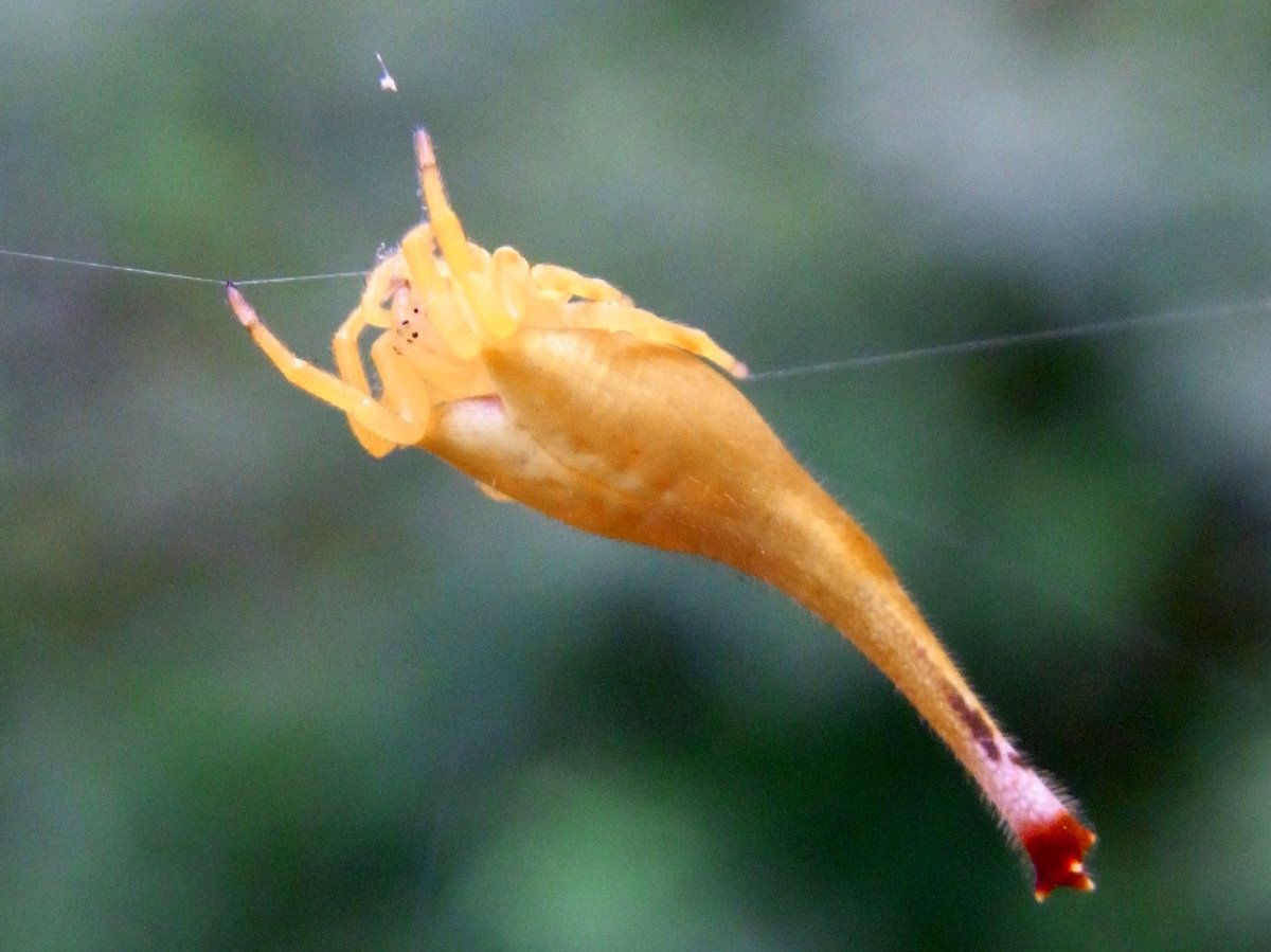 tailed spider; probably Arachnura higginsi, Chatswood West, Australia